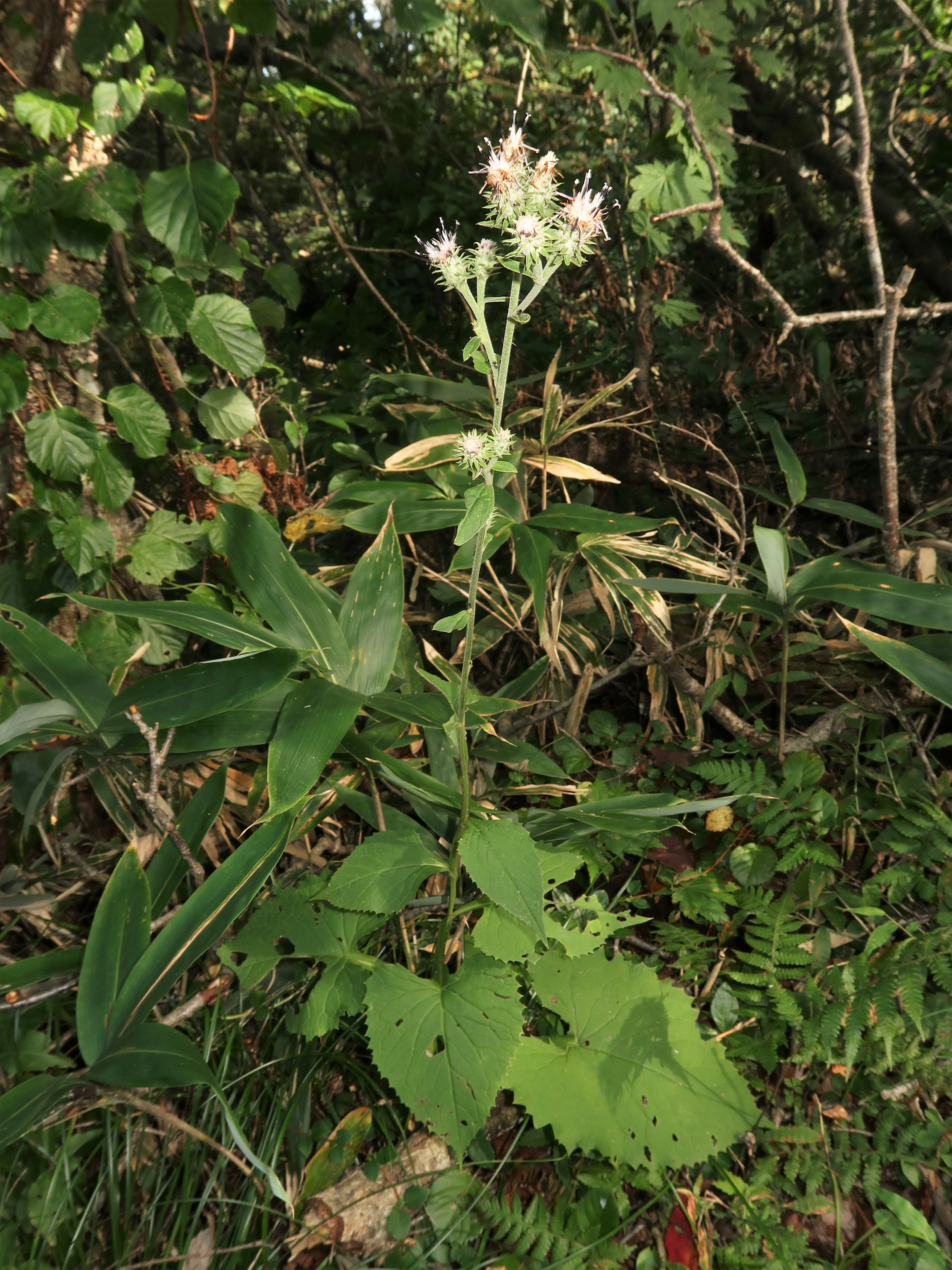 Saussurea muramatsui, Akita city, Akita pref., Japan